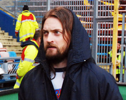 Mats Rubarth in 2012 before AIK-Malmö FF